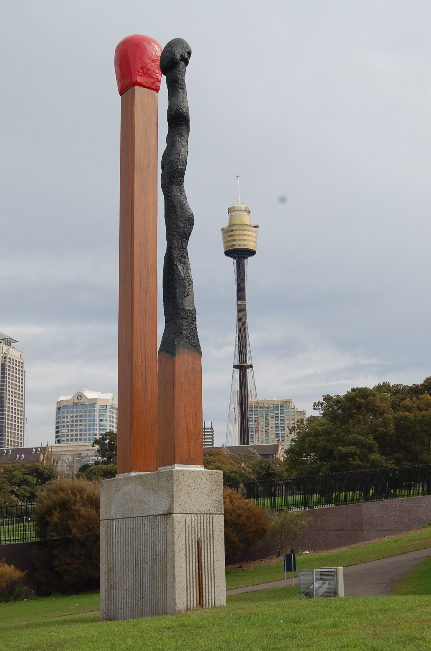 Brett Whitley "Almost Once", Domain, Sydney